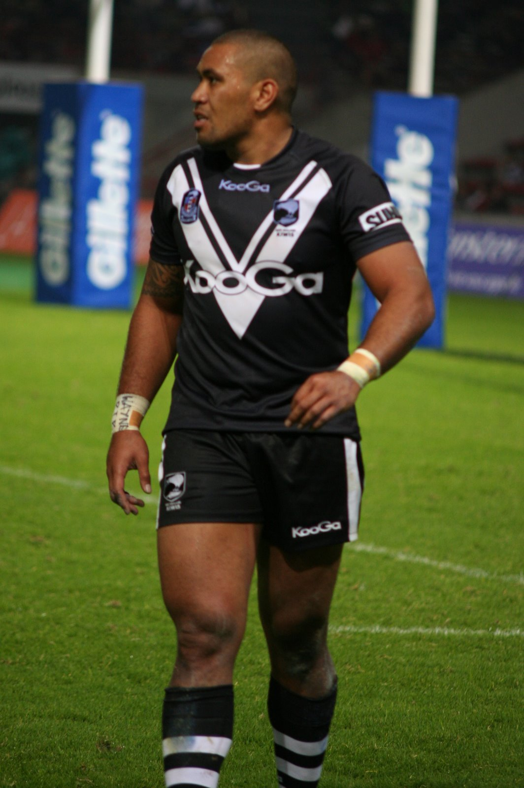 France vs Kiwis 2009